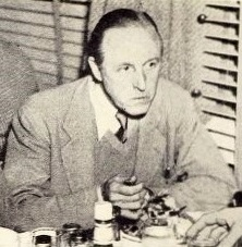 Beverly Roberts e William Keighley